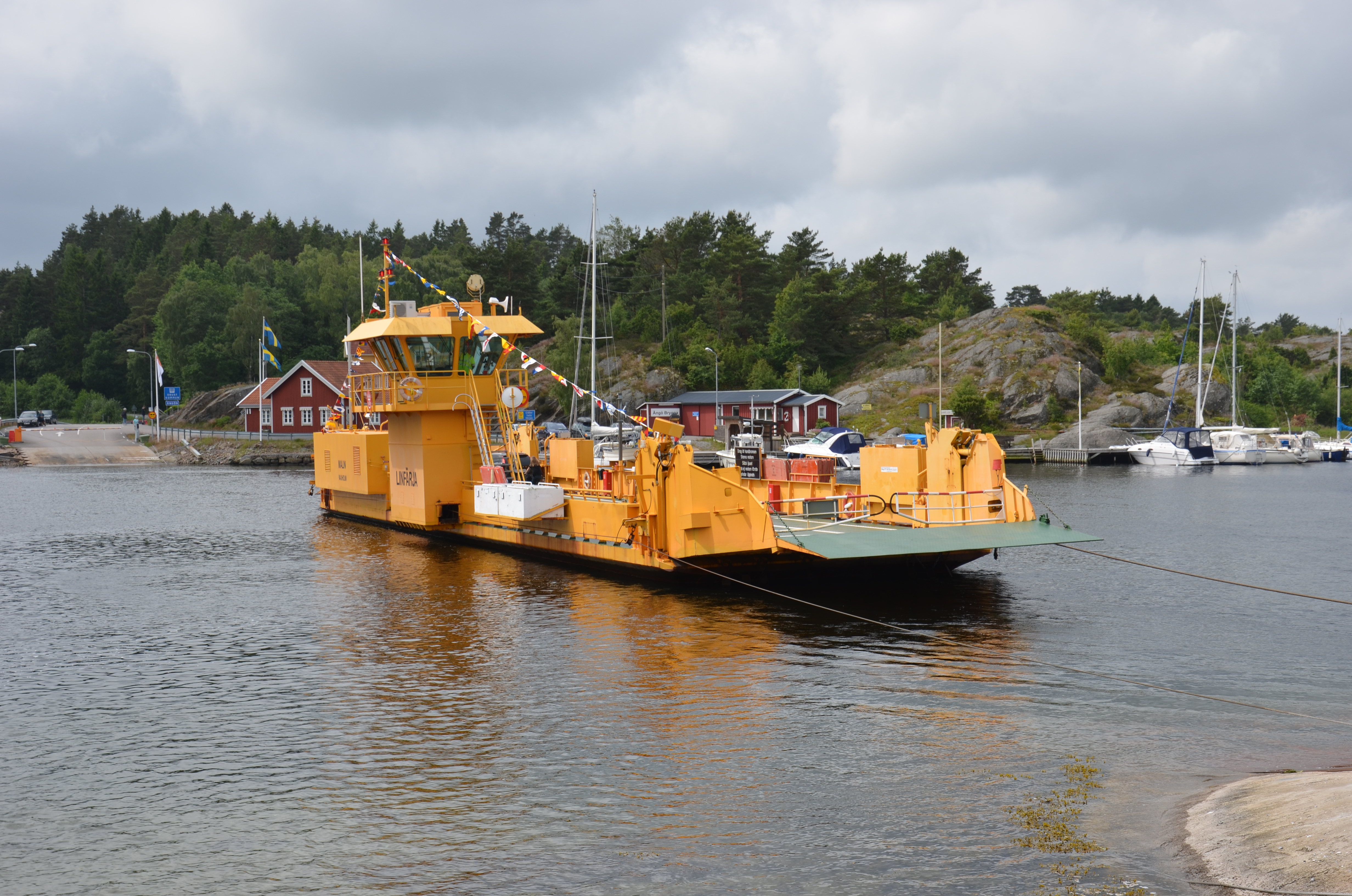 M/S Malin , cable ferry Ängöleden, Sweden, on route towards Ängän from Fruvik